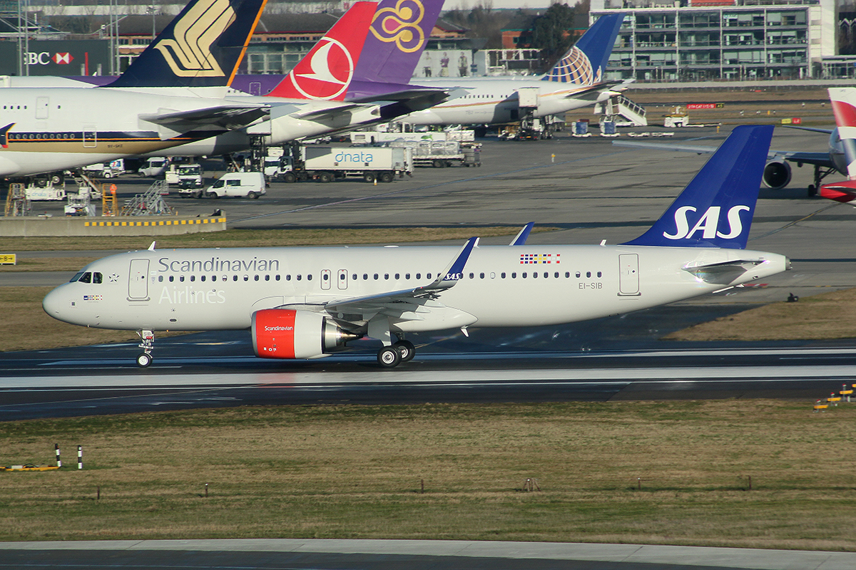 EI-SIB Airbus A320-251N @ Heathrow 28/12/2017